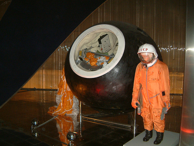 Capsule and space suit of Yuri Gagarin, first man in space, at the Memorial Museum of Astronautics in Moscow